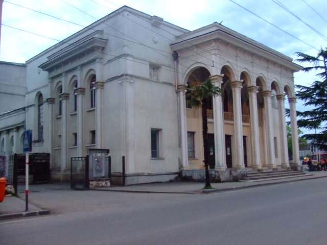 theatre in Zugdidi